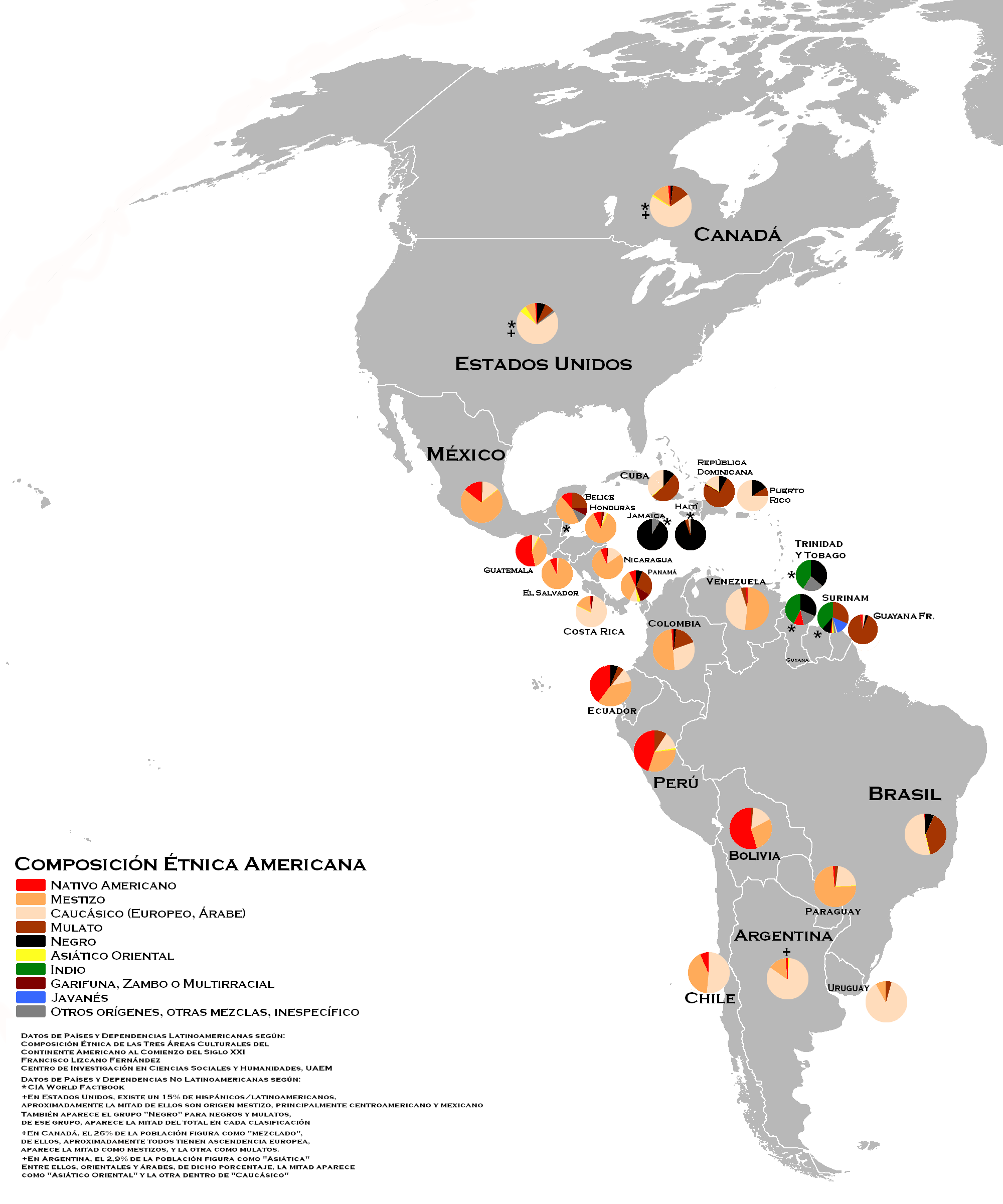 Ethnic composition of the Americas from Francisco Lizcano